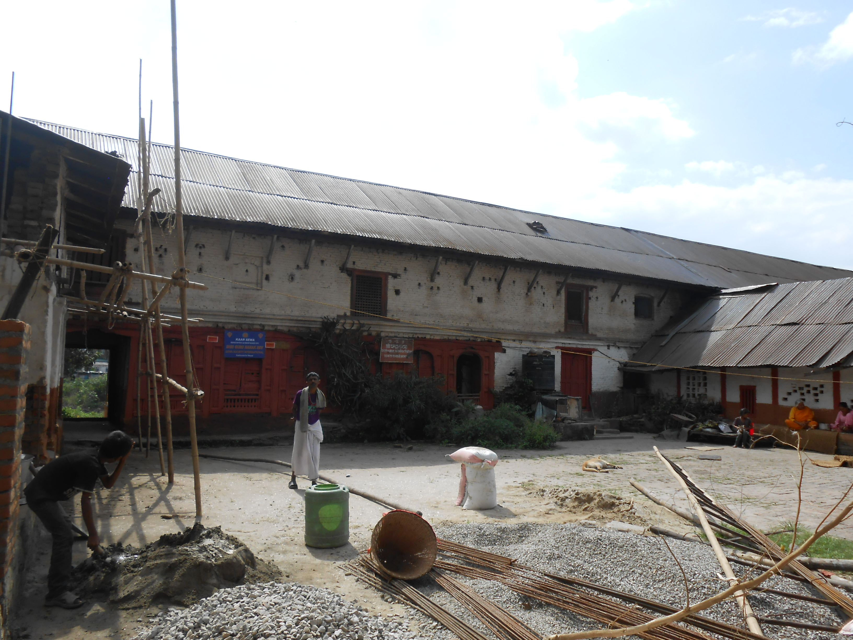 Udashi Akhada